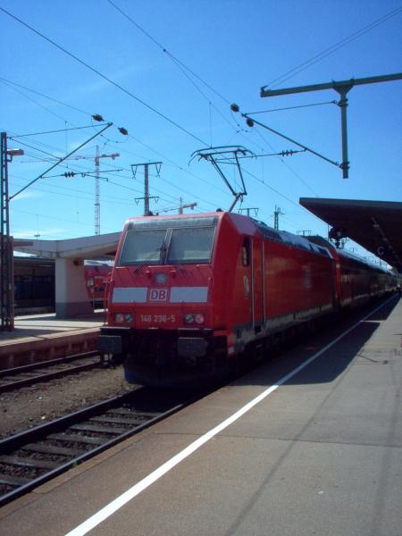 Schwarzwaldbahn train at Singen station in Germany.